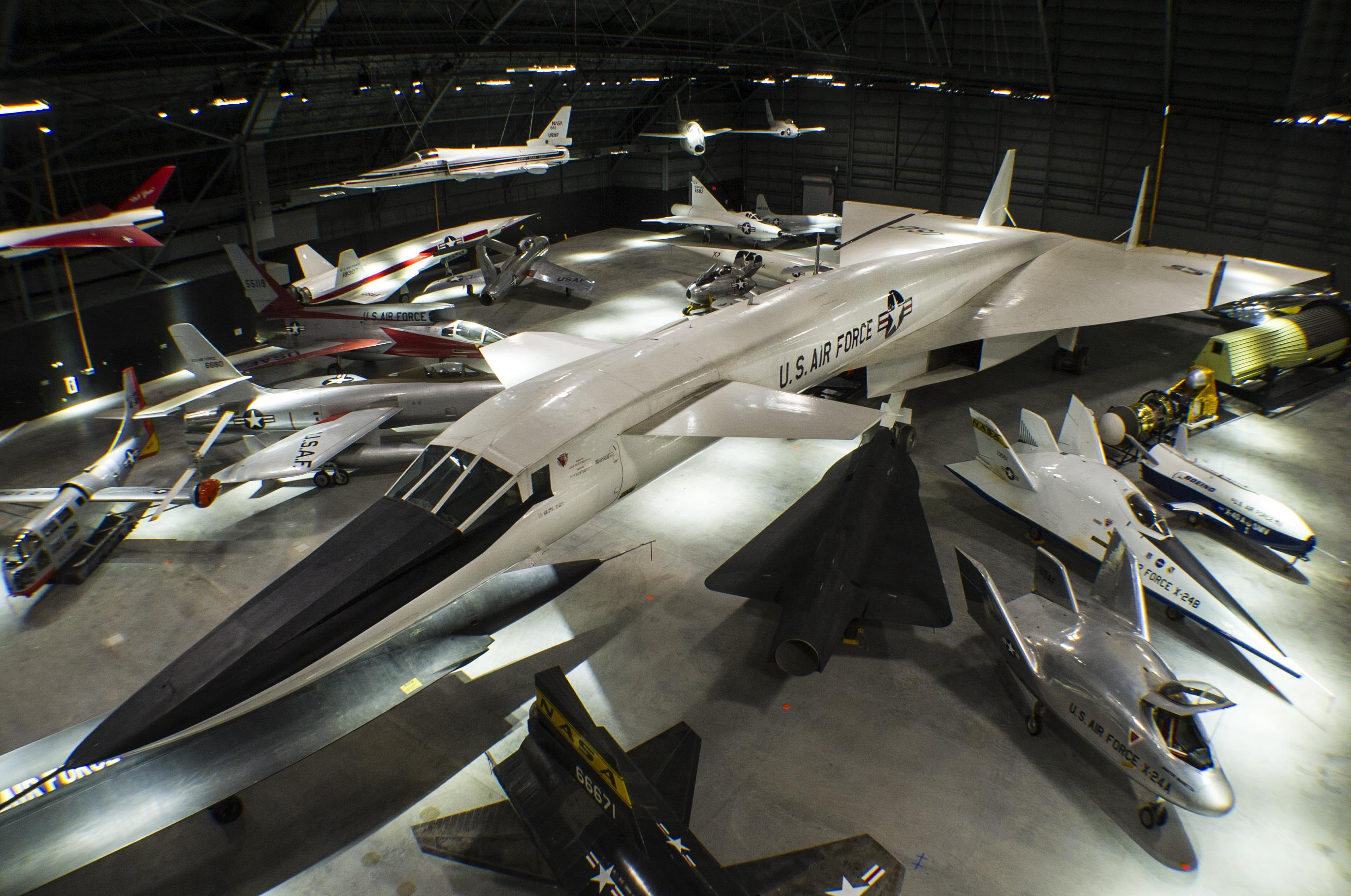 An overhead view of the fourth building aircraft at the National Museum of the United States Air Force. The fourth building includes more than 70 aircraft in four new galleries -- Presidential, Research & Development, Space and Global Reach. Centered is the only remaining North American XB-70 Valkyrie